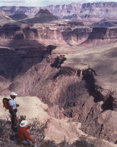 Public Domain image from National Park Service Website Category:Images of Arizona